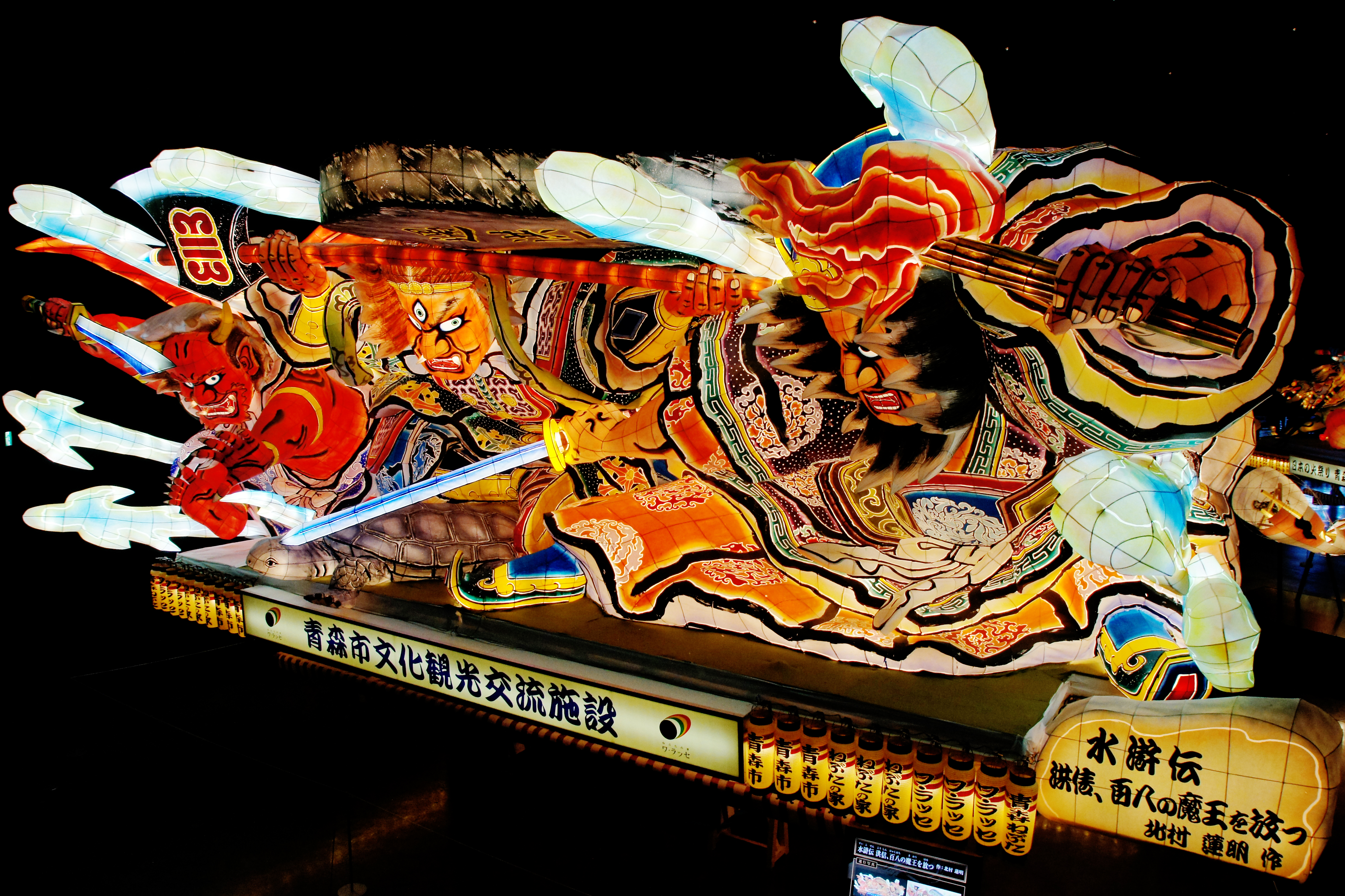 Nebuta house Warasse in Aomori, Aomori prefecture, Japan